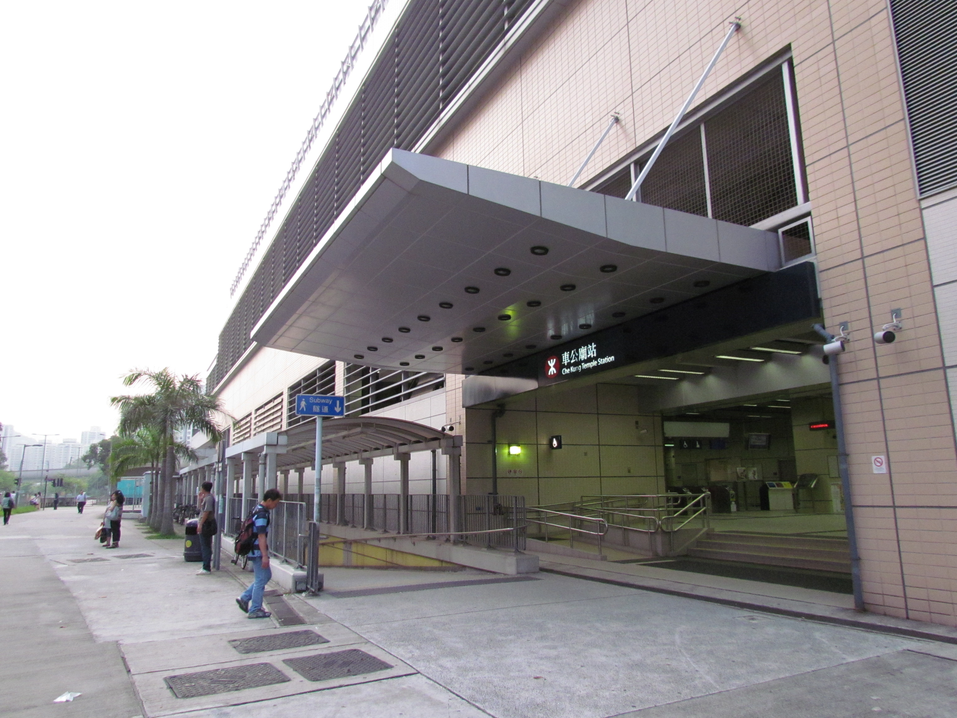 Hong Kong MTR Che Kung Temple, Exit D exterior